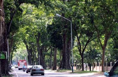 The leafy western section of Macalister Road in George Town, Penang